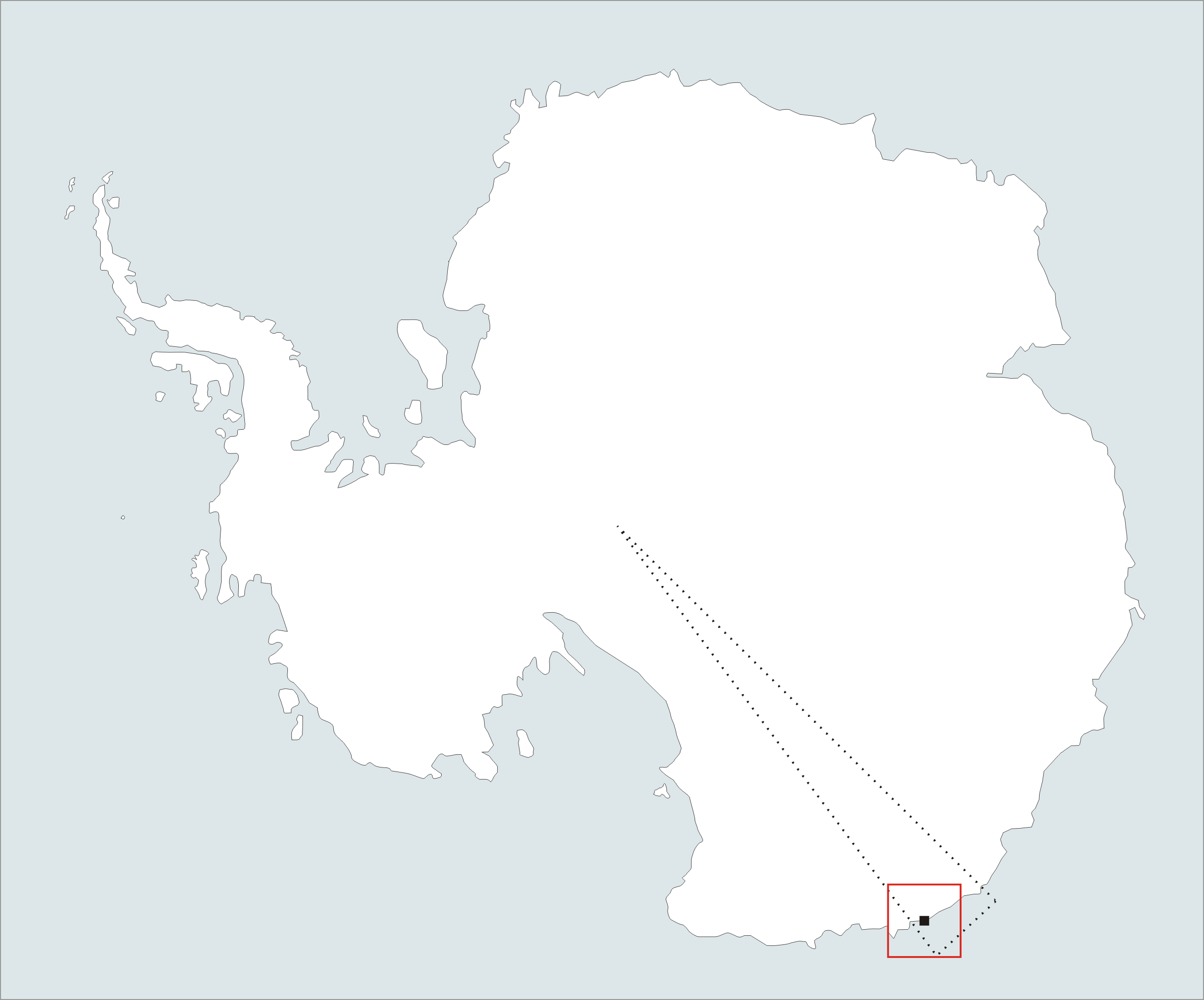 Position of French Dumont d'Urville Station in Antarctica drawn by varp